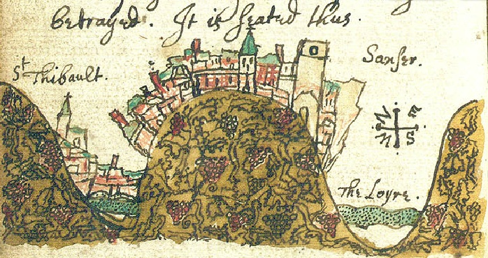 John Bargrave, 1645, detail of a page from an illustrated diary, showing the French wine-producing hilltop town of Sancerre in the centre, the Loire River on the right and the village of Saint-Thibault on the left. The diary is preserved in the Canterbury Cathedral archives.